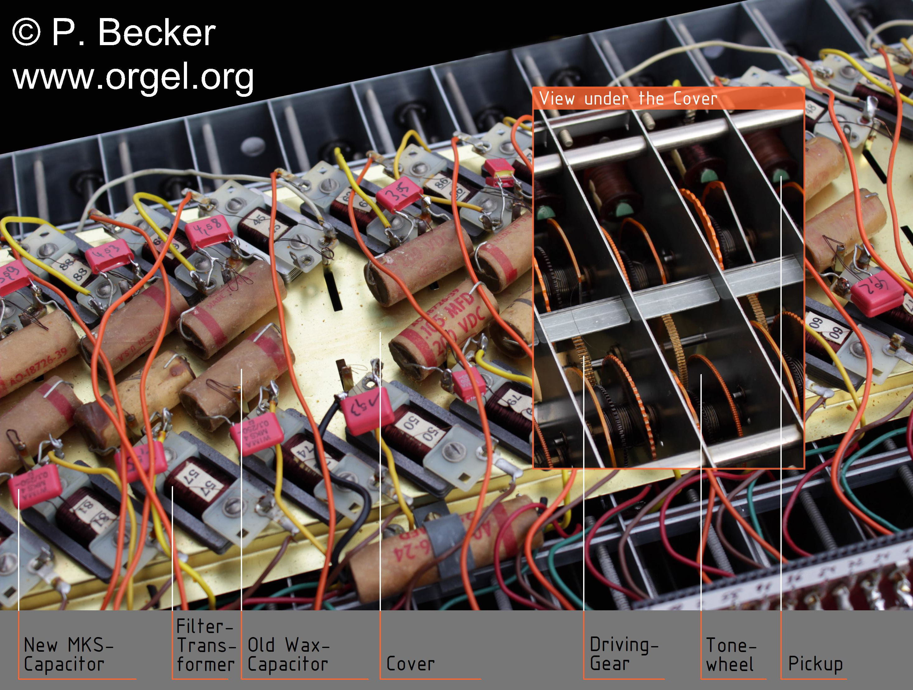 Tonegenreator components